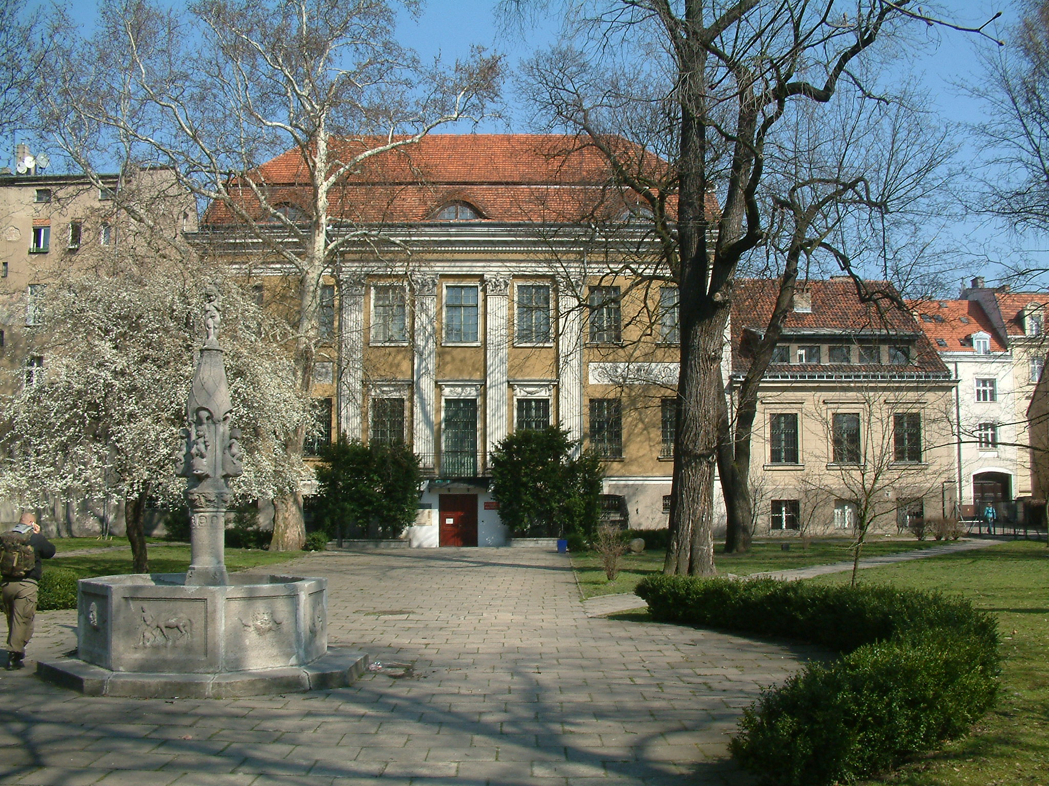 Entnographic Museum (part of National Museum in Poznań)